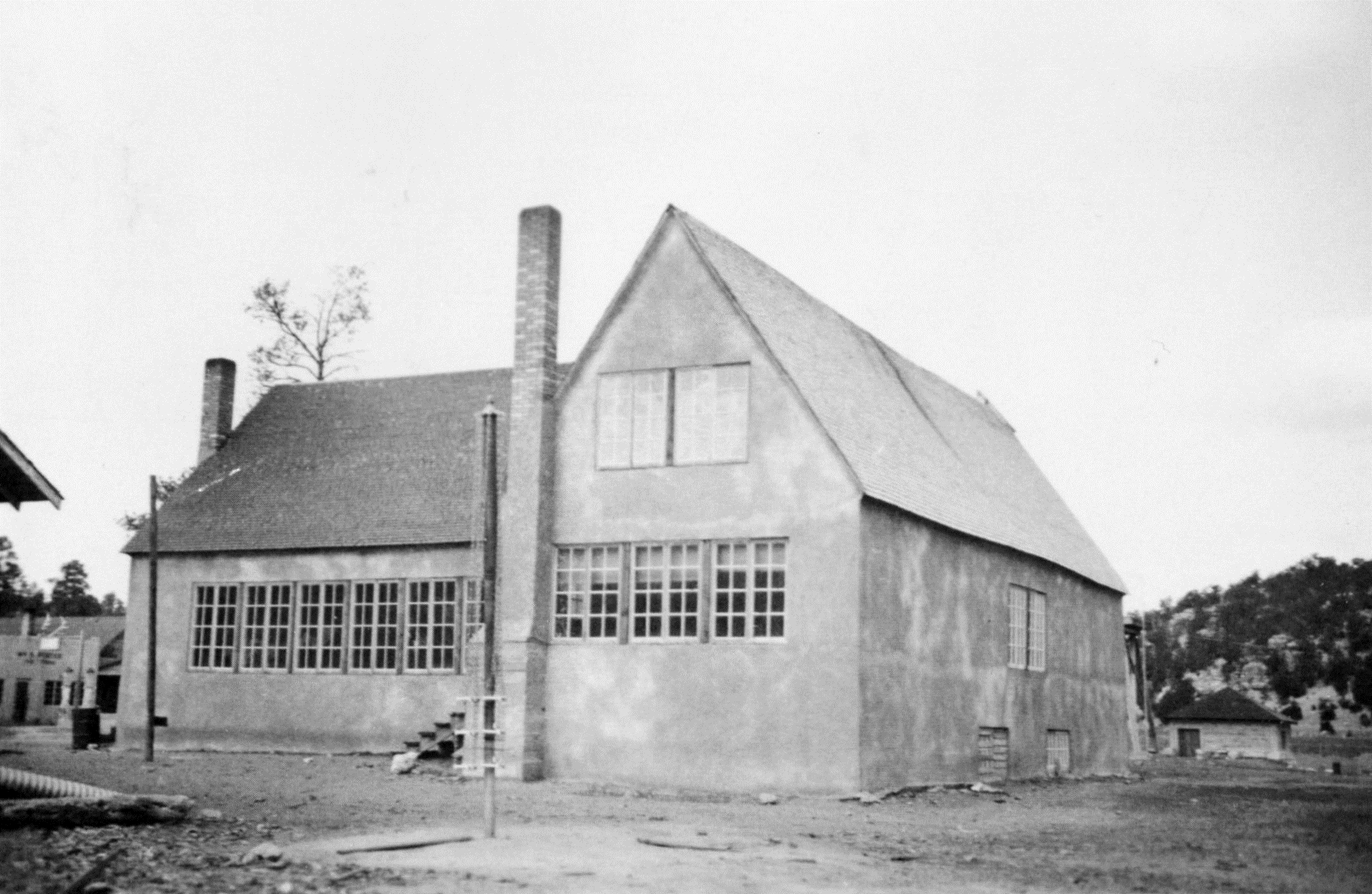 Heber's first meetinghouse of The Church of Jesus Christ of Latter-day Saints.